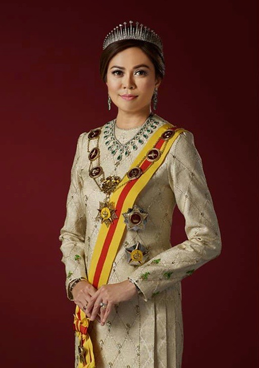 The official royal portrait of DYMM Tengku Permaisuri Selangor, HRH Crown Queen of Selangor by the state government website.